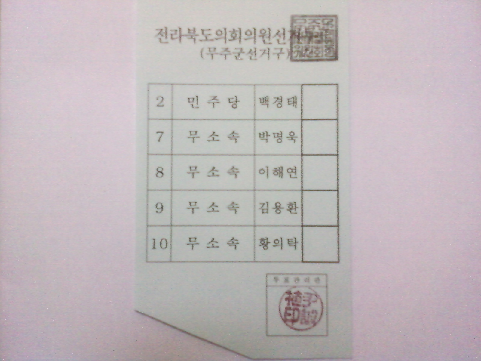 Korean 5th local election ballot paper - Jeollabuk-do (전라북도의회의원 무주군 선거구)